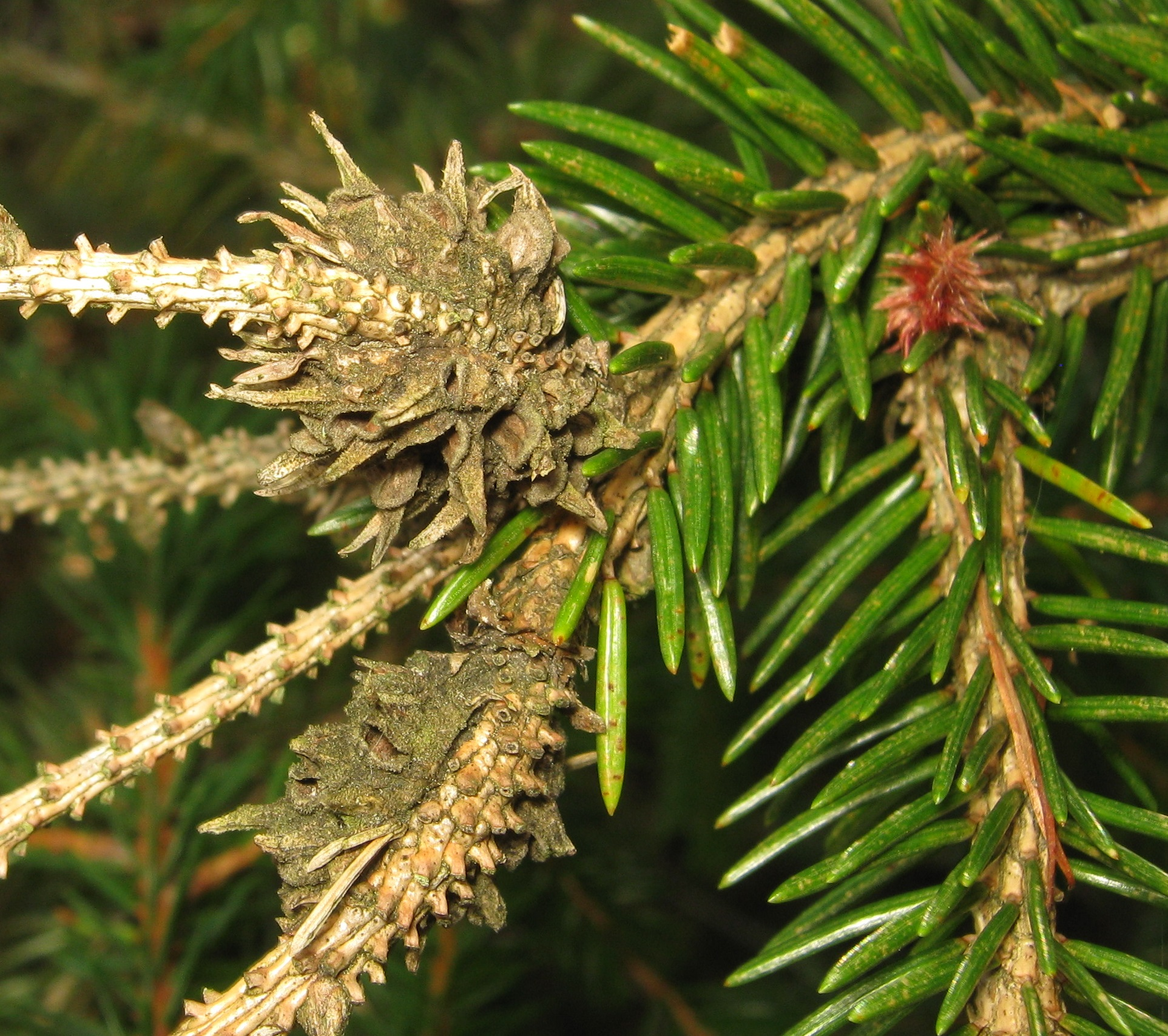 Adelges abietis (Eastern Spruce Gall Adelgid) galls on spruce. Pocono Environmental Education Center, Pike County, Pennsylvania, USA.